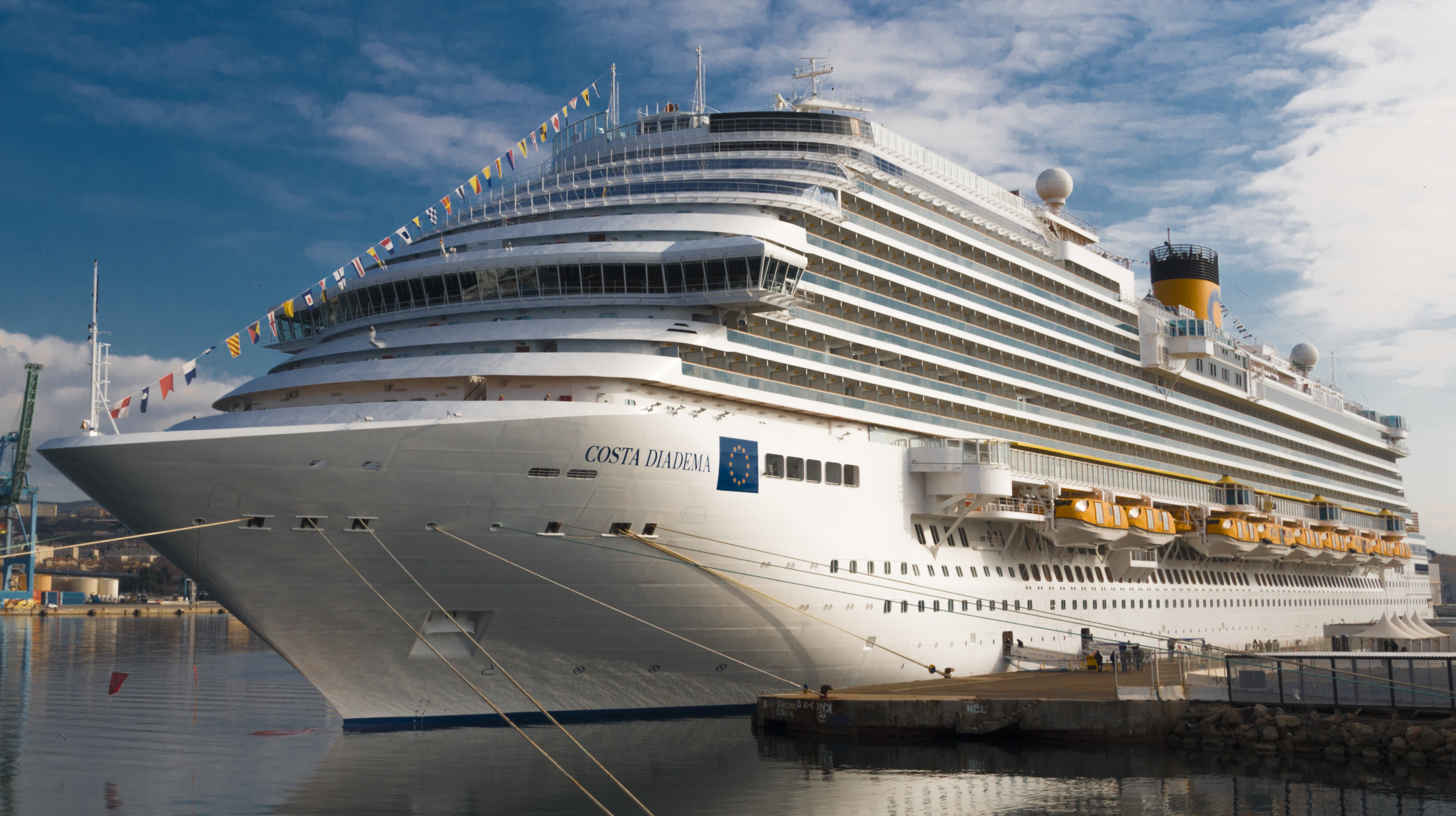 Costa Diadema in Grand port maritime de Marseille| in Marseille, France.